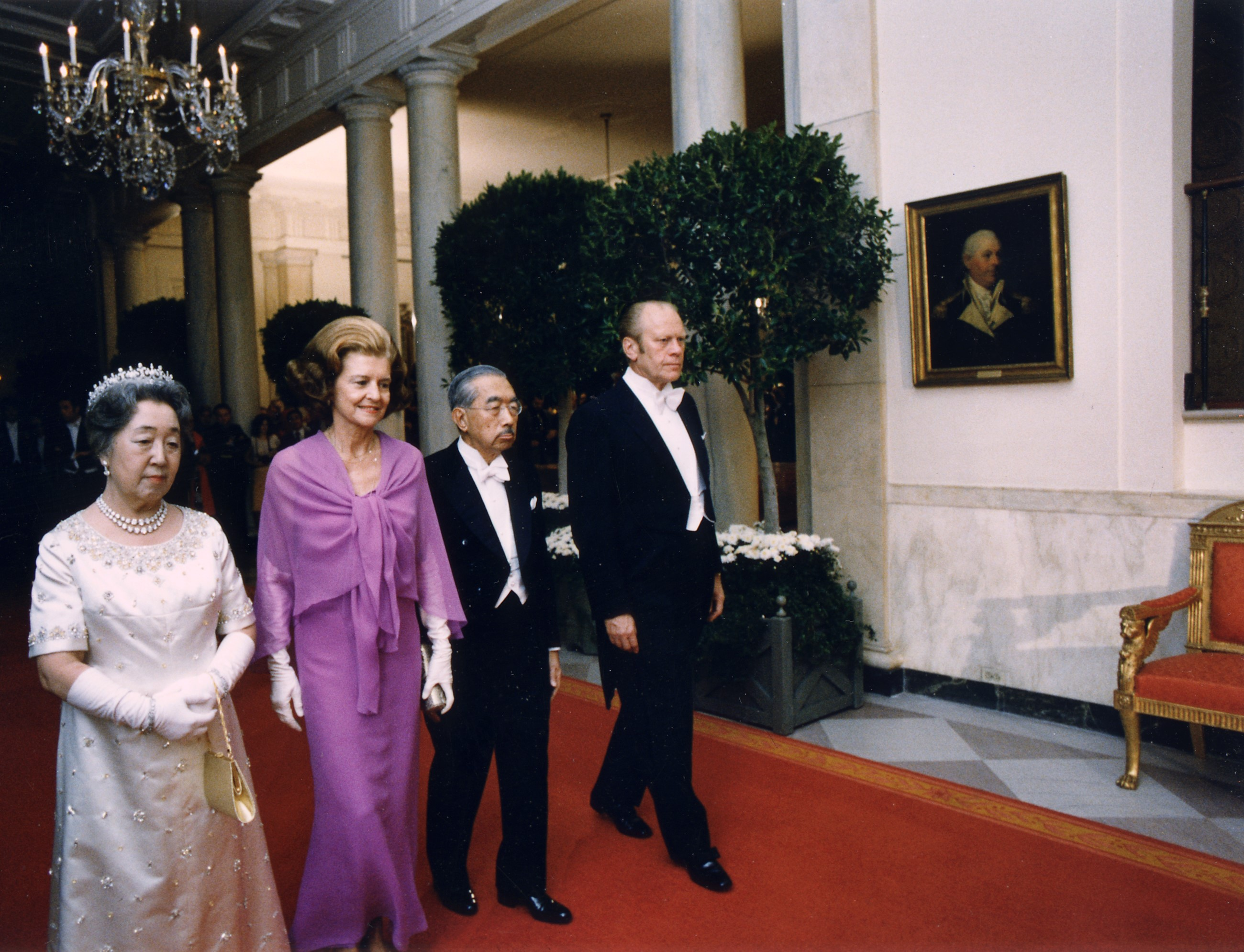 (Caption from original) Empress Nagako, Betty Ford, Emperor Hirohito and President Gerald Ford walk down the Cross Hall towards the East Room prior to a state dinner held in honor of the Japanese head of state